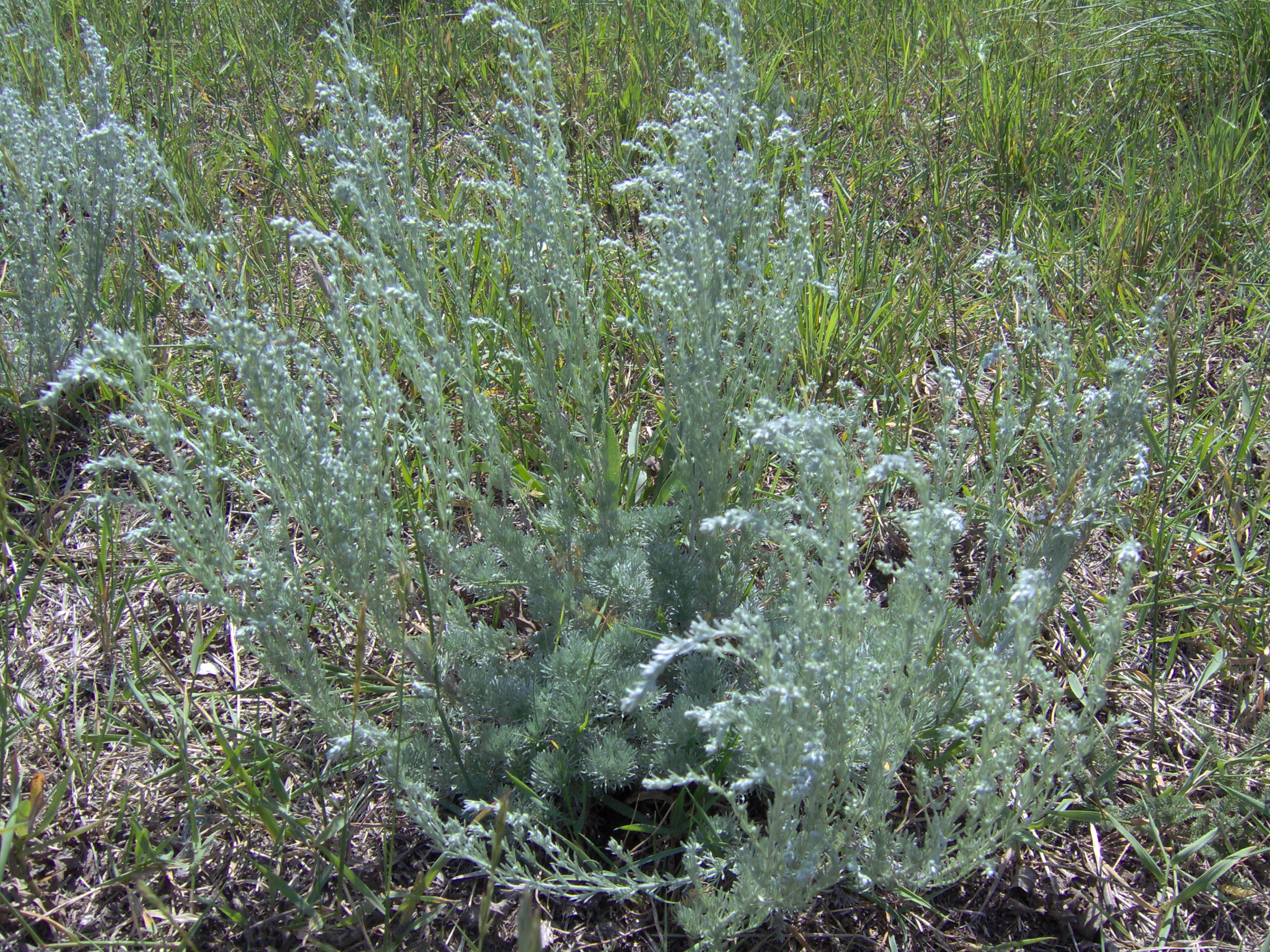 SK Artemisia in summer. prairie sagewort